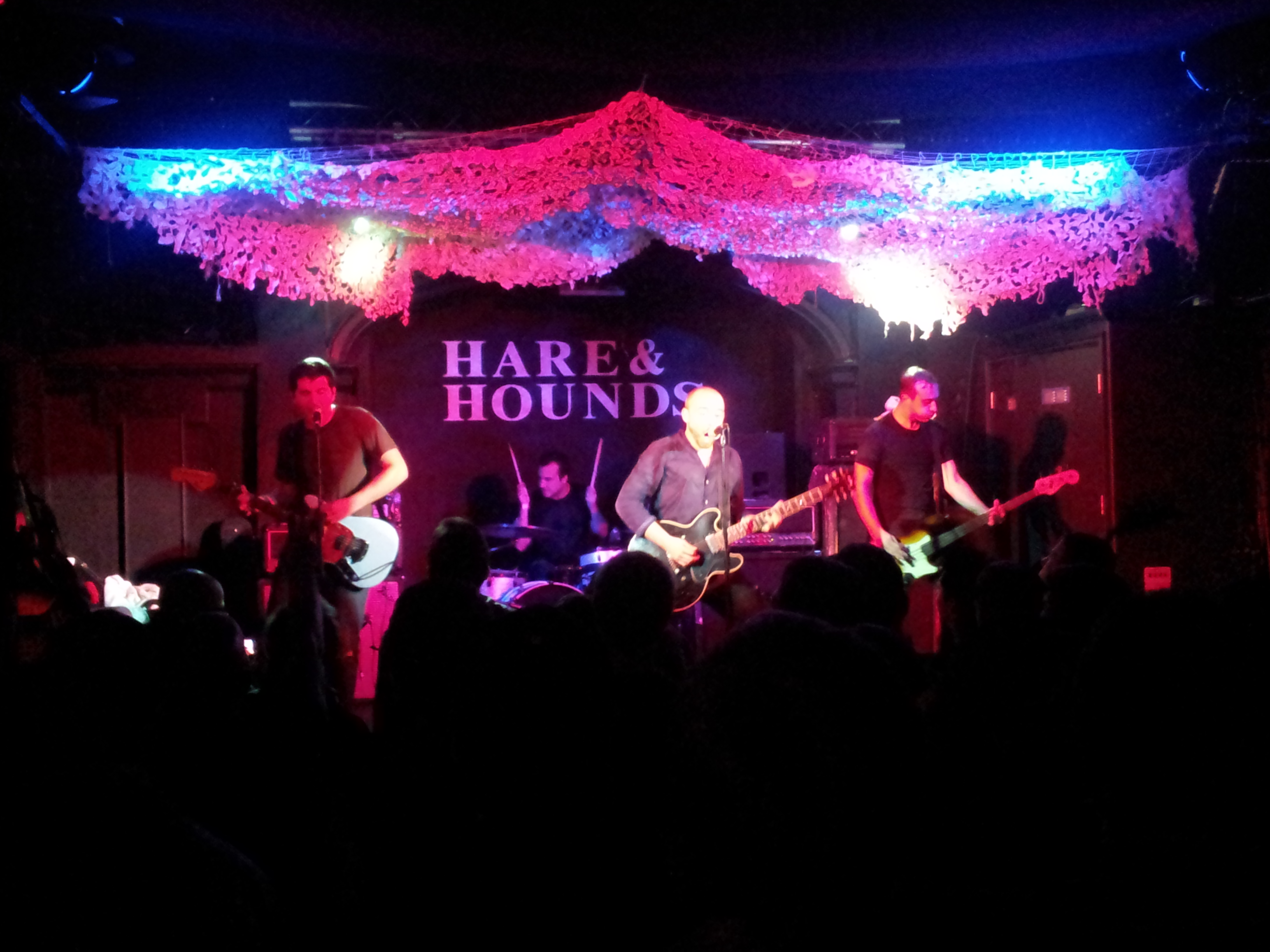 The Menzingers at Hare & Hounds in Birmingham in September 2012